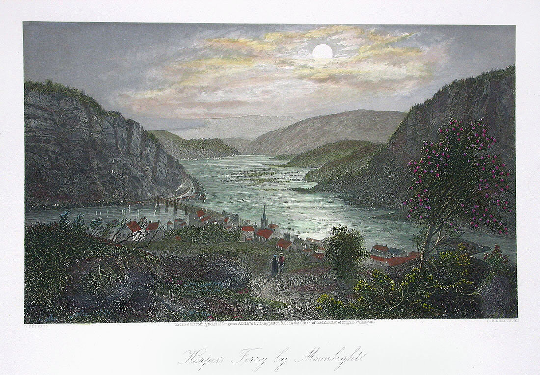 Plate from "Picturesque America", Harper's Ferry by Moonlight